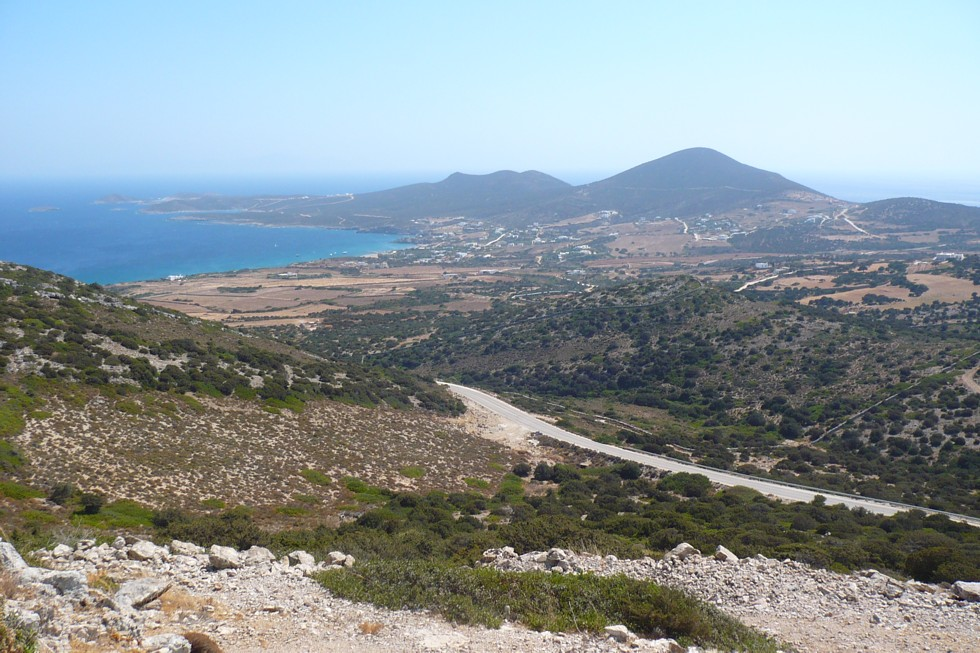 Seeview of Antiparos island in Greece.